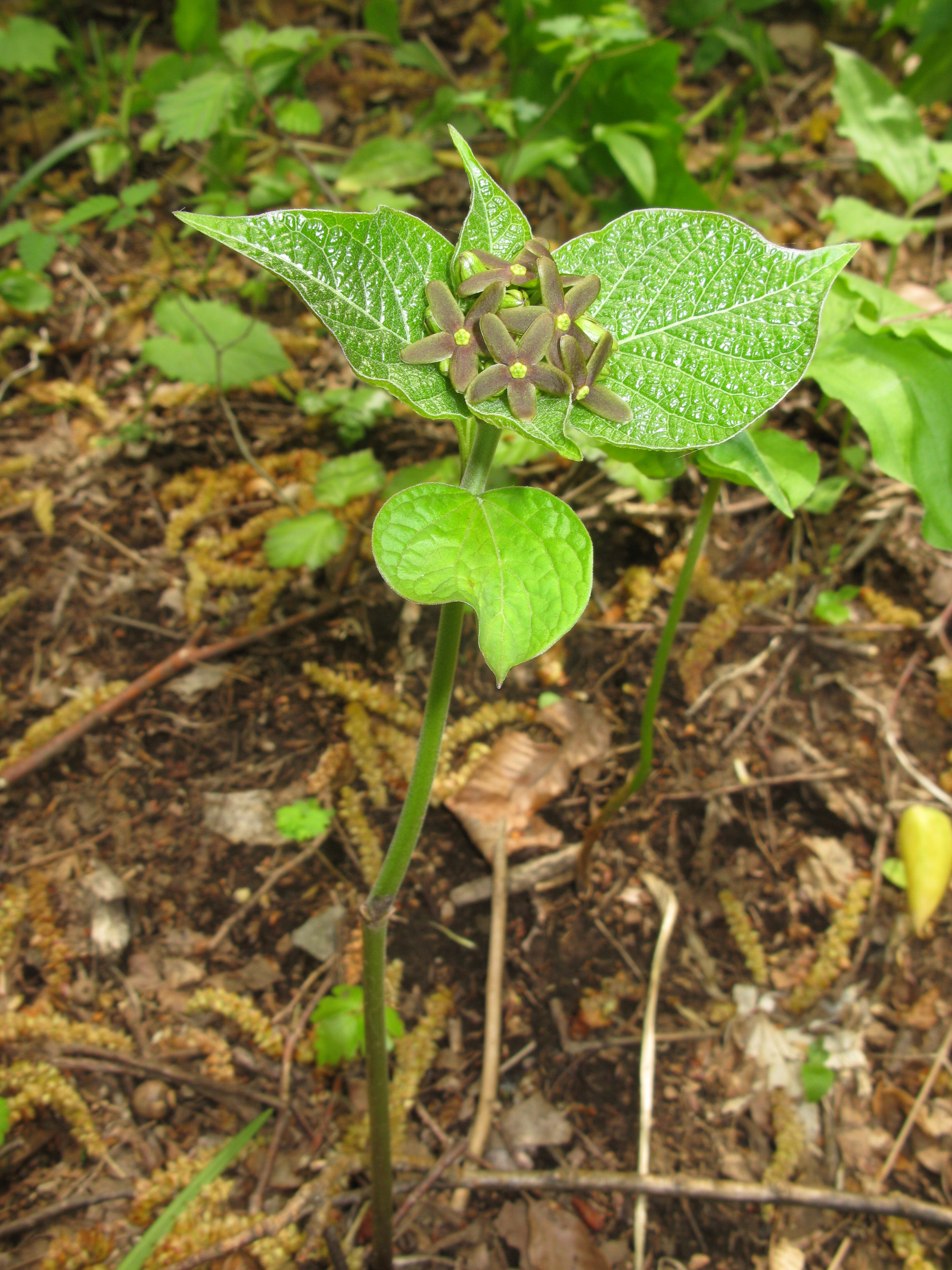 Vincetoxicum magnificum, Fukushima city, Fukushima pref., Japan